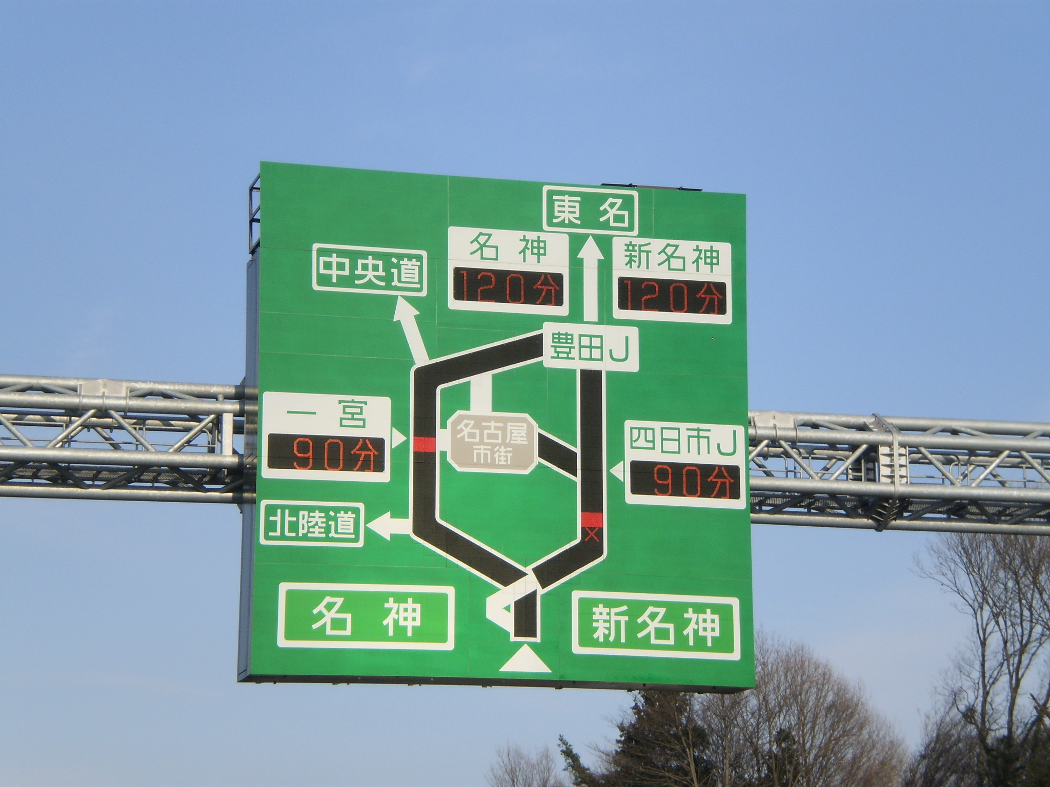 Traffic guide sign of Meishin and Shin-Meishin Expressways at Ichiriyama 6-chome, Otsu City, Shiga Prefecture, Japan